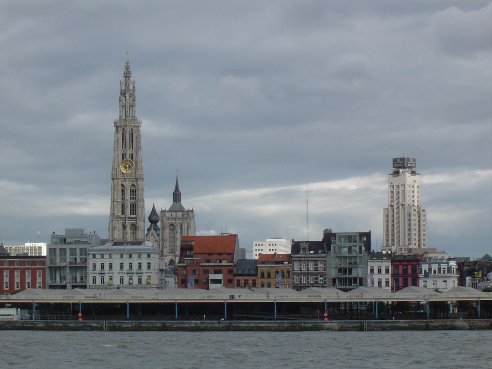 View on Antwerp from Scheldt.